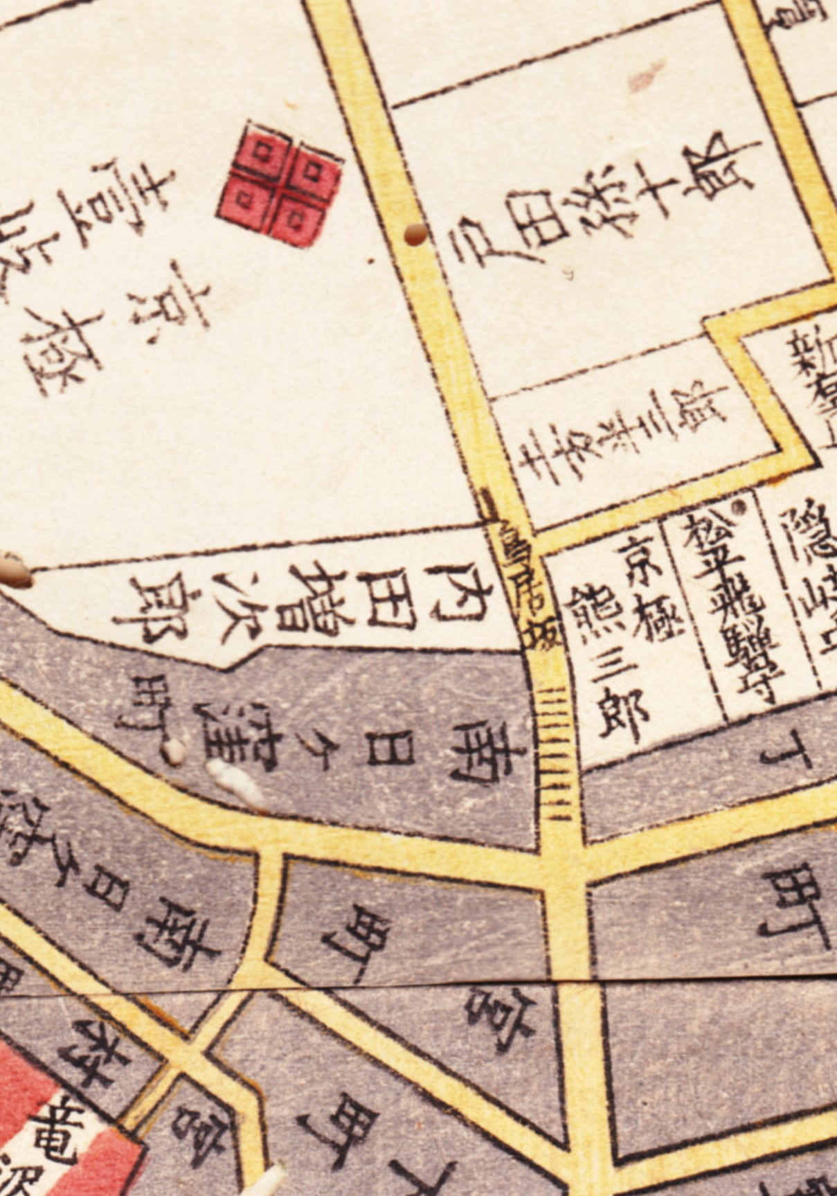 Detail of kiriezu-type myp of Edo